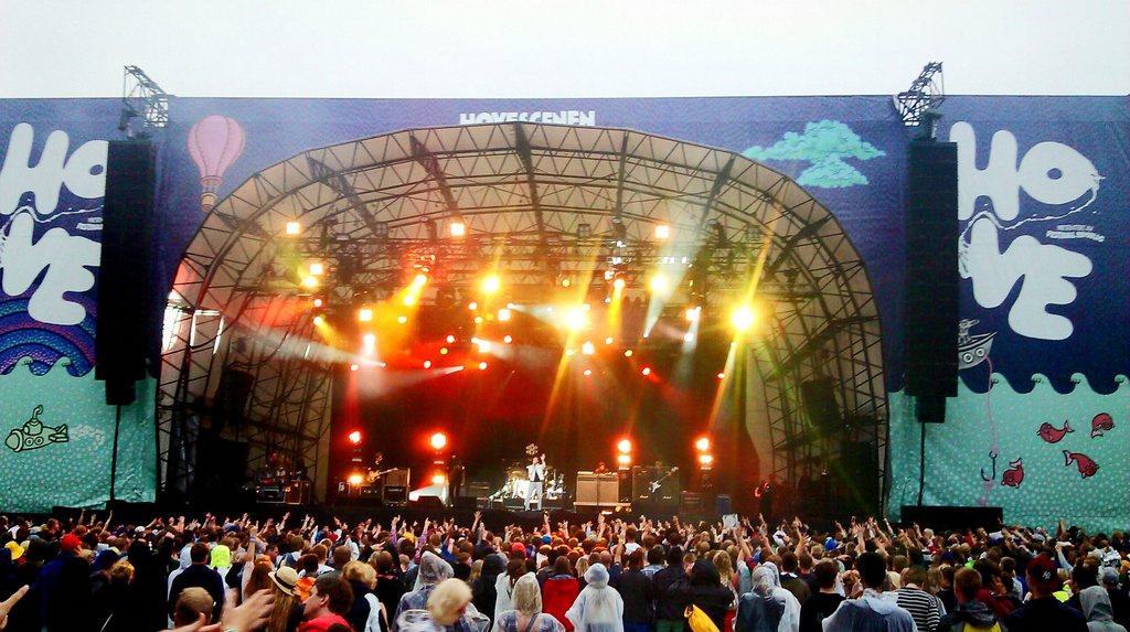 Taken with picplz at Hove Festival in Arendal, Norway.